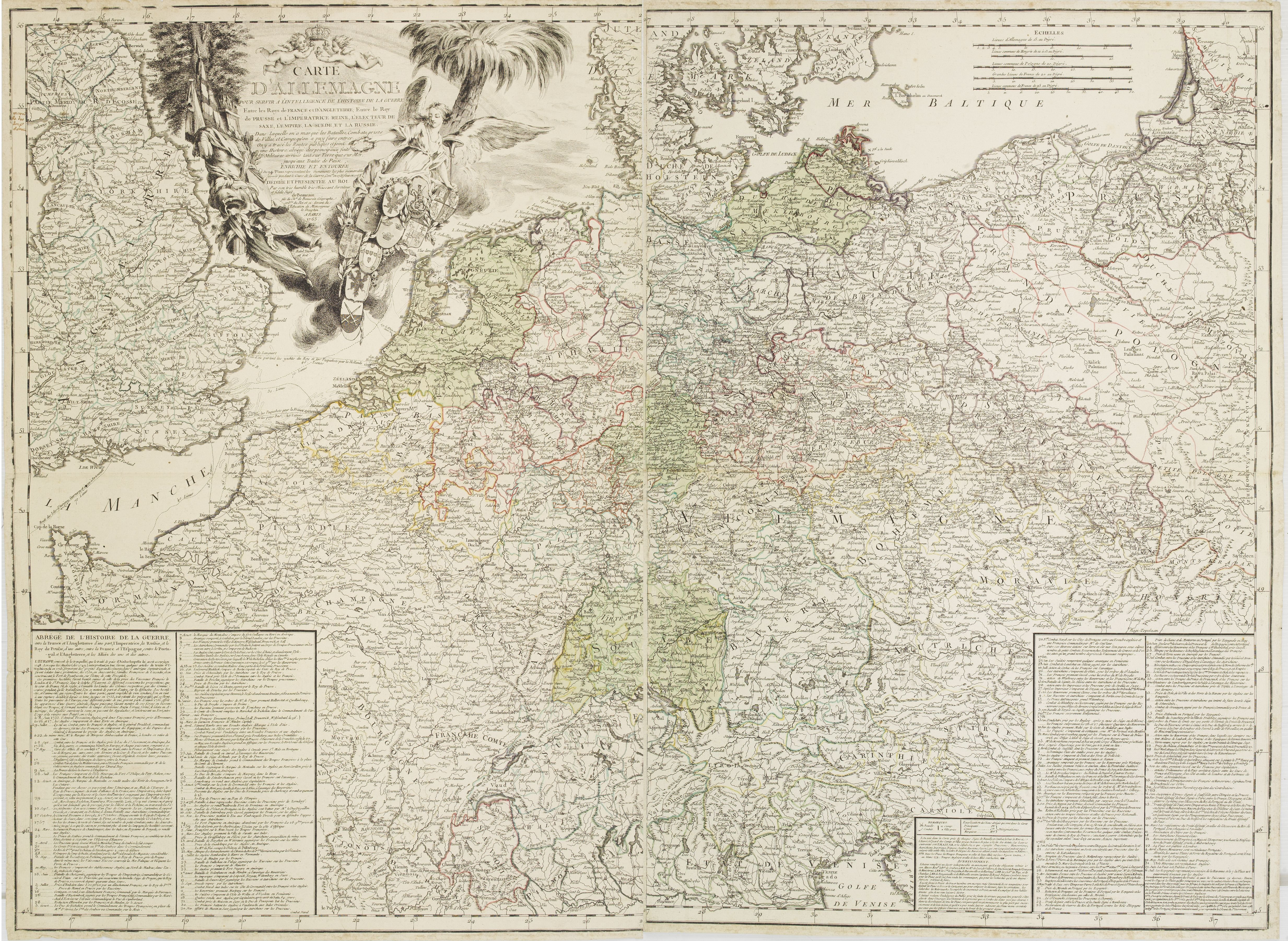 Large map on two sheets of Germany, Poland, the Netherlands, Belgium, Northern parts of France, Luxemburg and northern Italy. In lower left and right hand corners a two columns text about the European wars during the years 1749 and 1763.